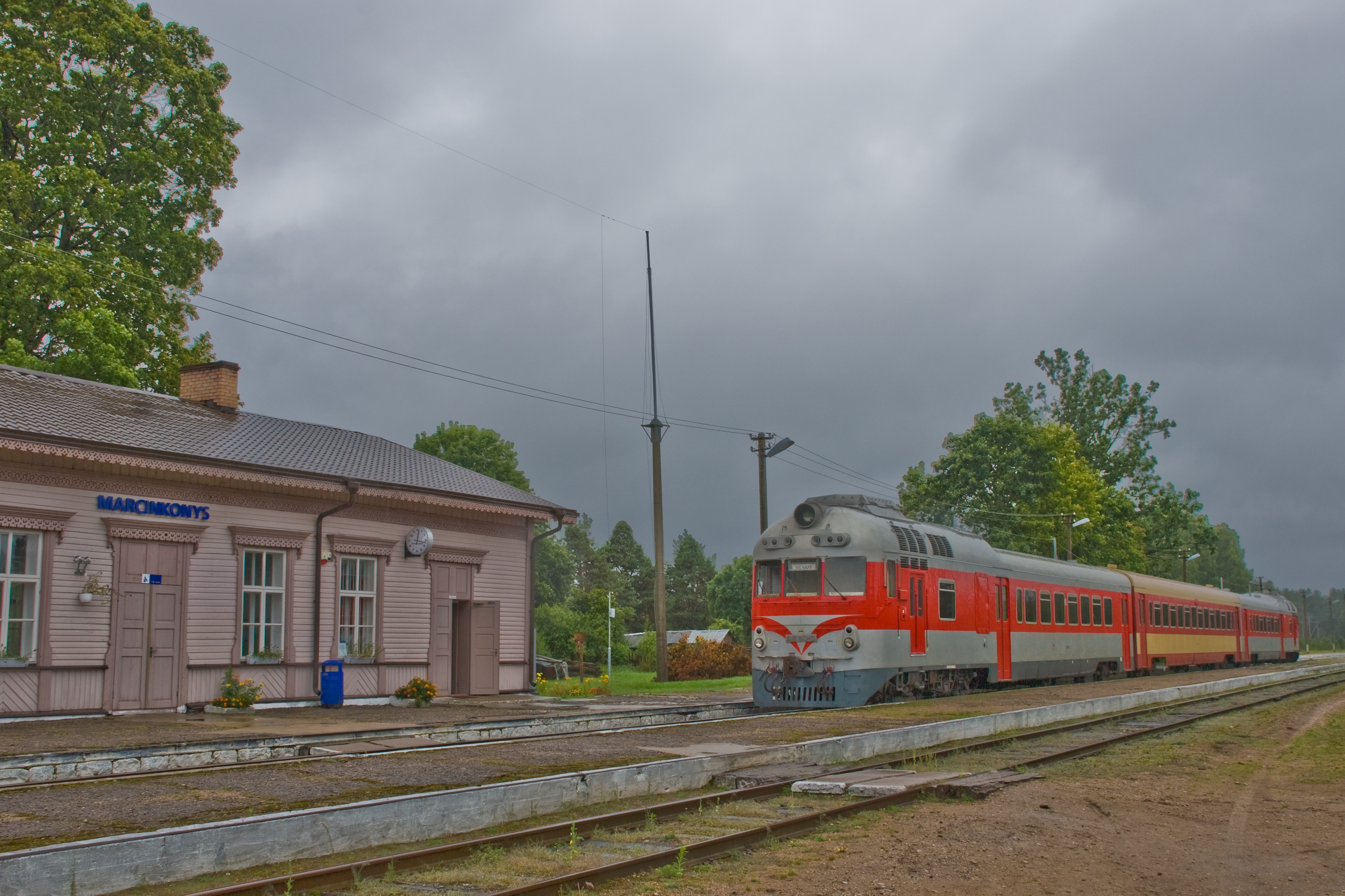 Marcinkonys railway station, Lithuania